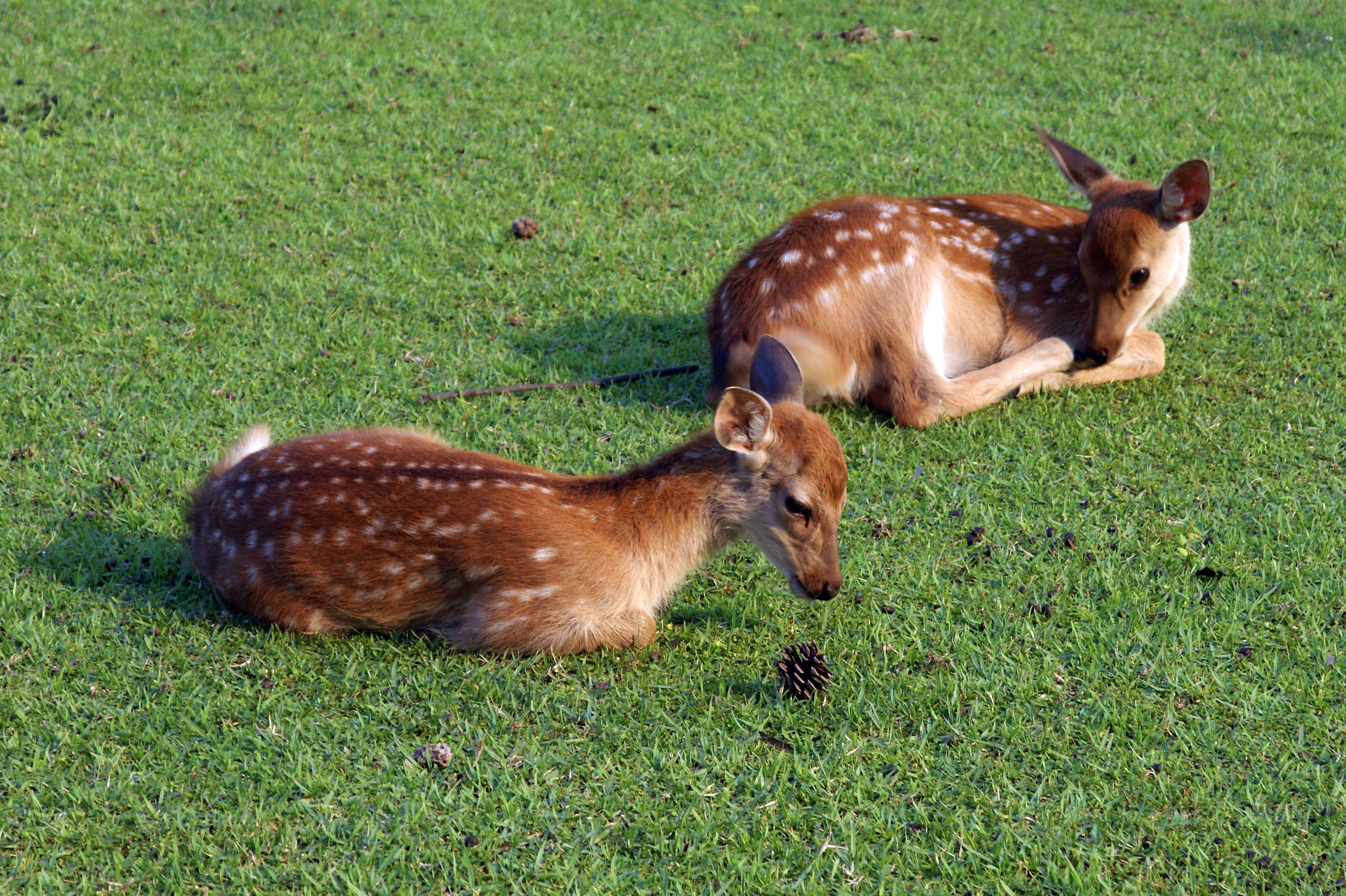 Nara Park in Nara, Nara prefecture, Japan